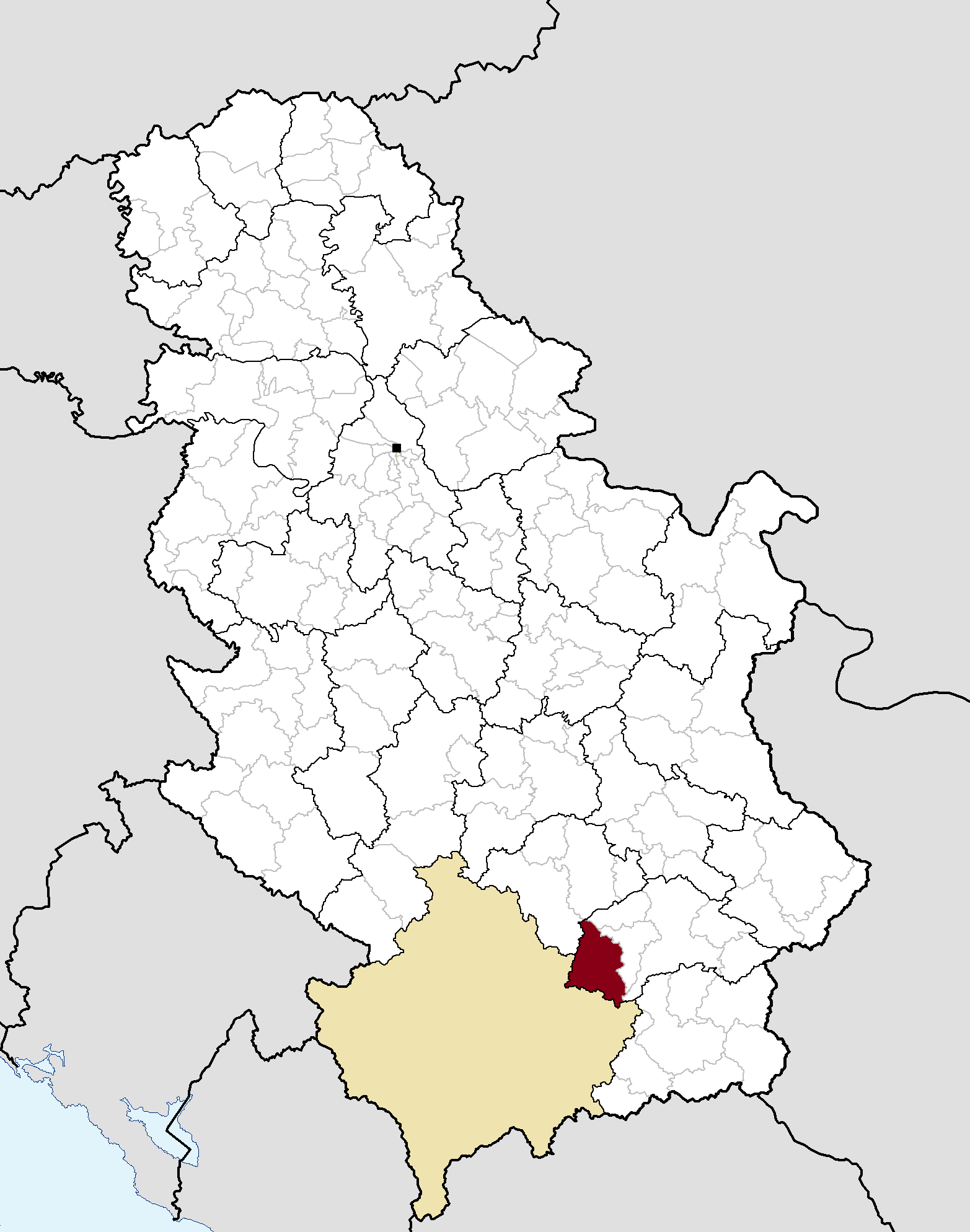 Municipal location in Serbia